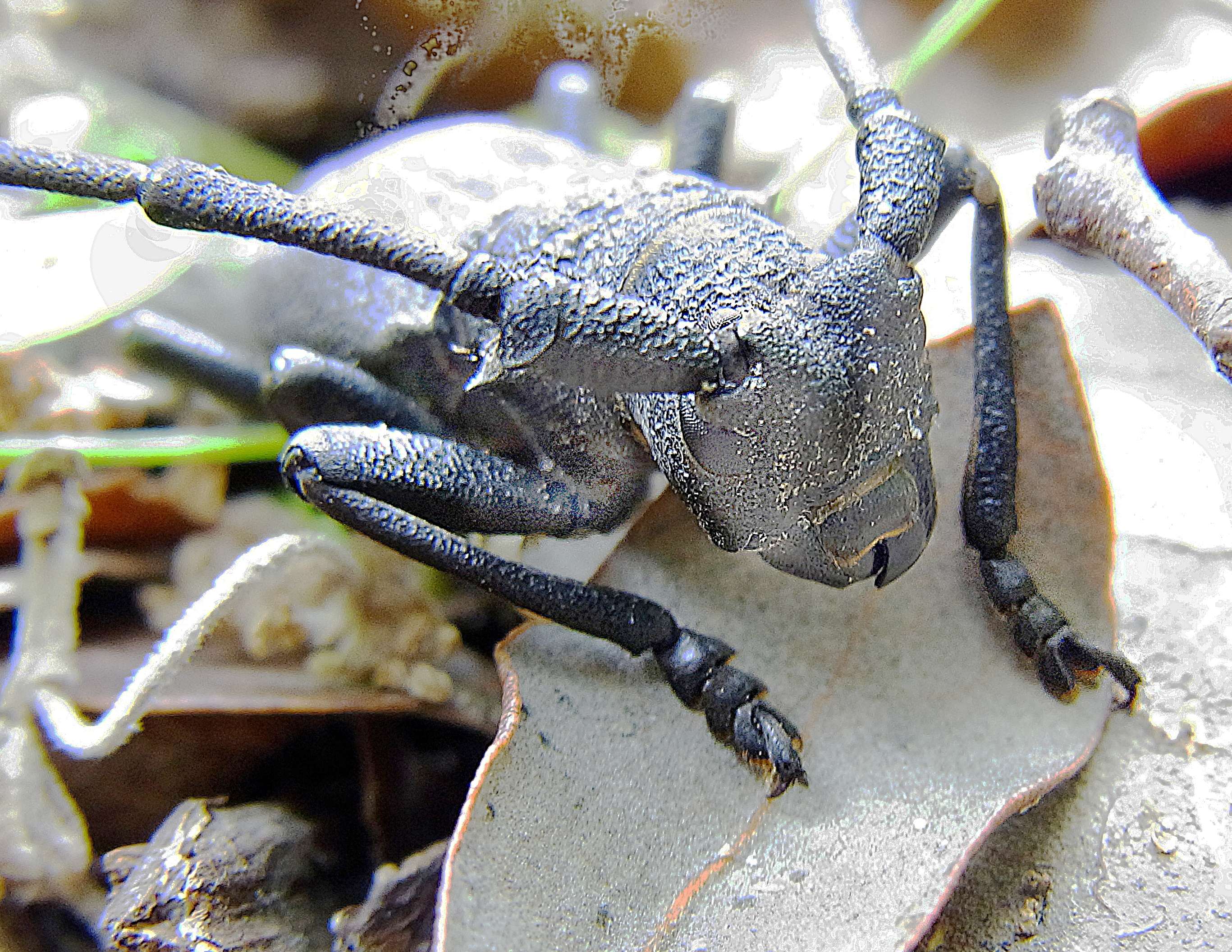 Morimus asper from France, northwest of Carcassonne at 2011-06-06